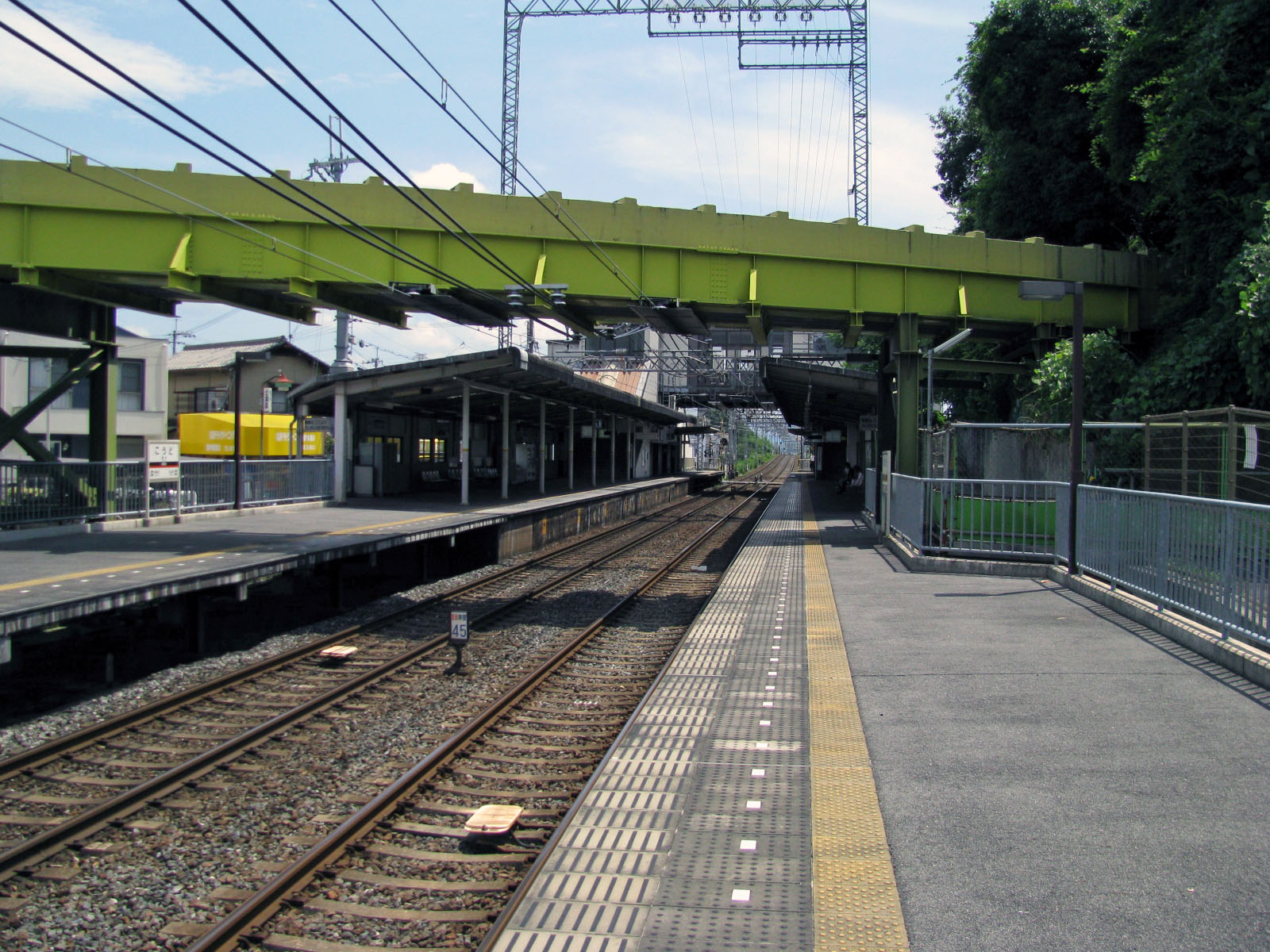 Kodo Station on Kintetsu Kyoto Line